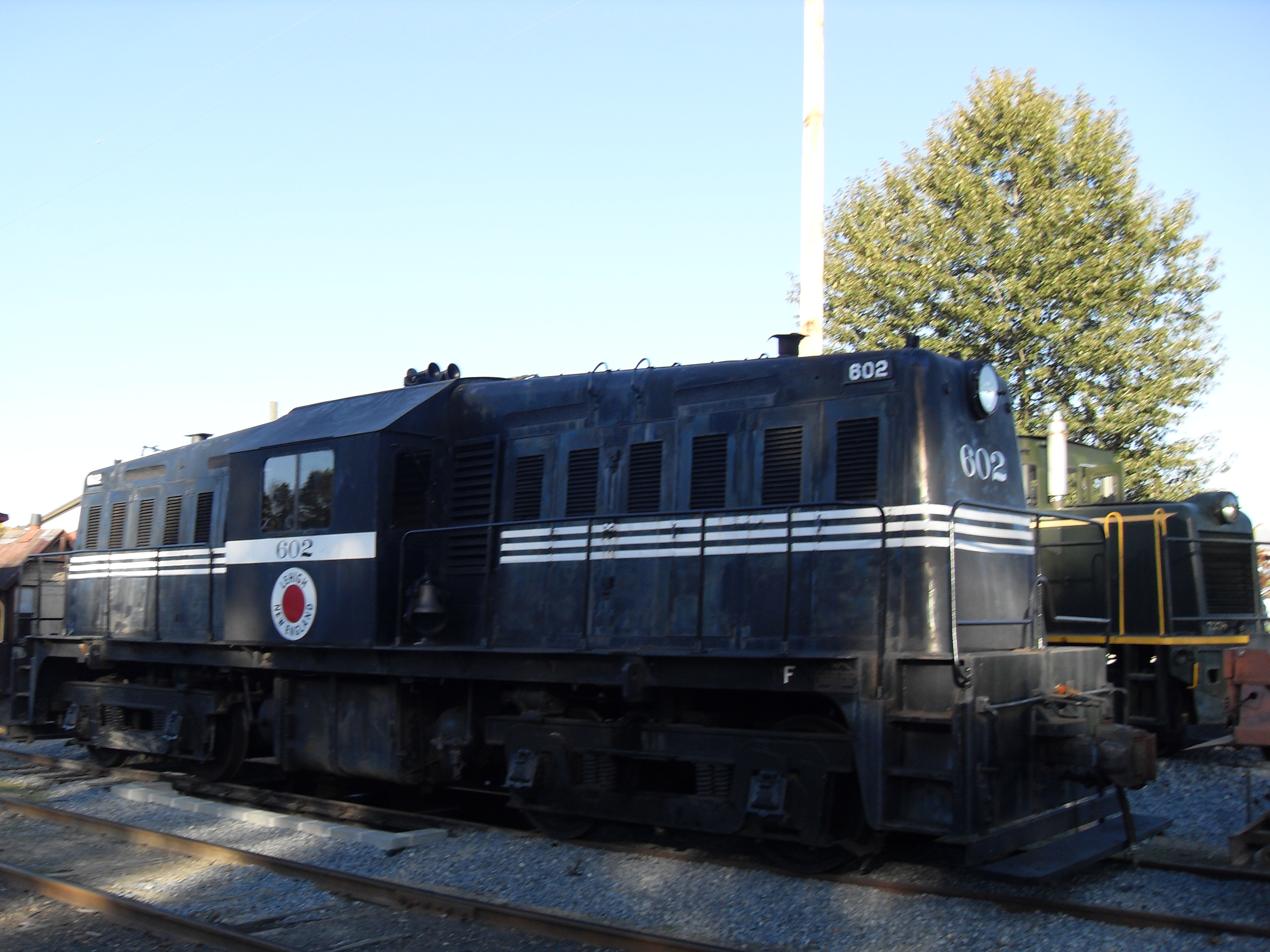 Whitcomb locomotive, from the Wanamaker, Kempton & Southern